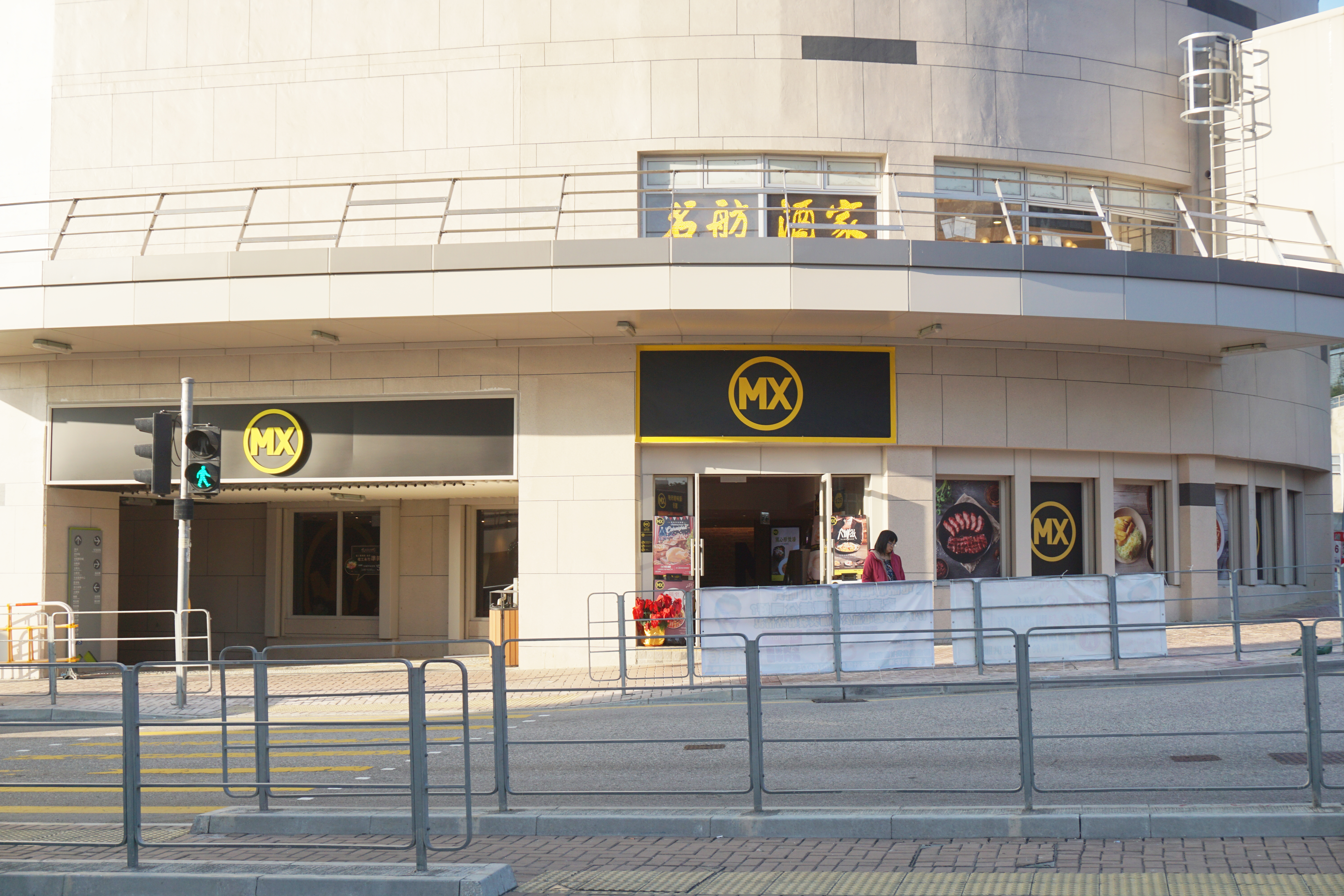 On Tai Shopping Centre in Sau Mau Ping, Hong Kong.